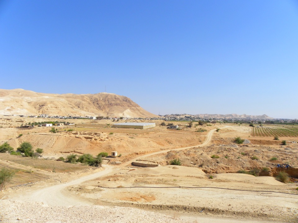 Herod's Palace at Jericho Herod's winter palaces, Jericho